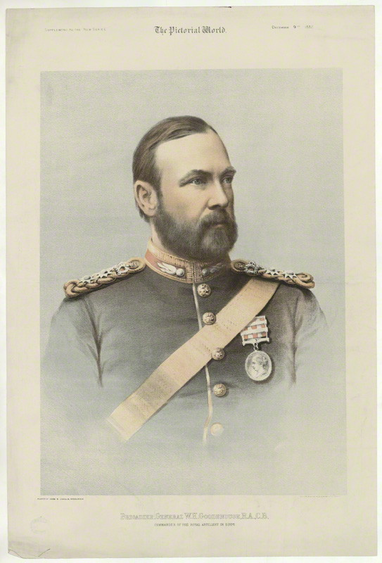 Portrait of General Sir William Howley Goodenough